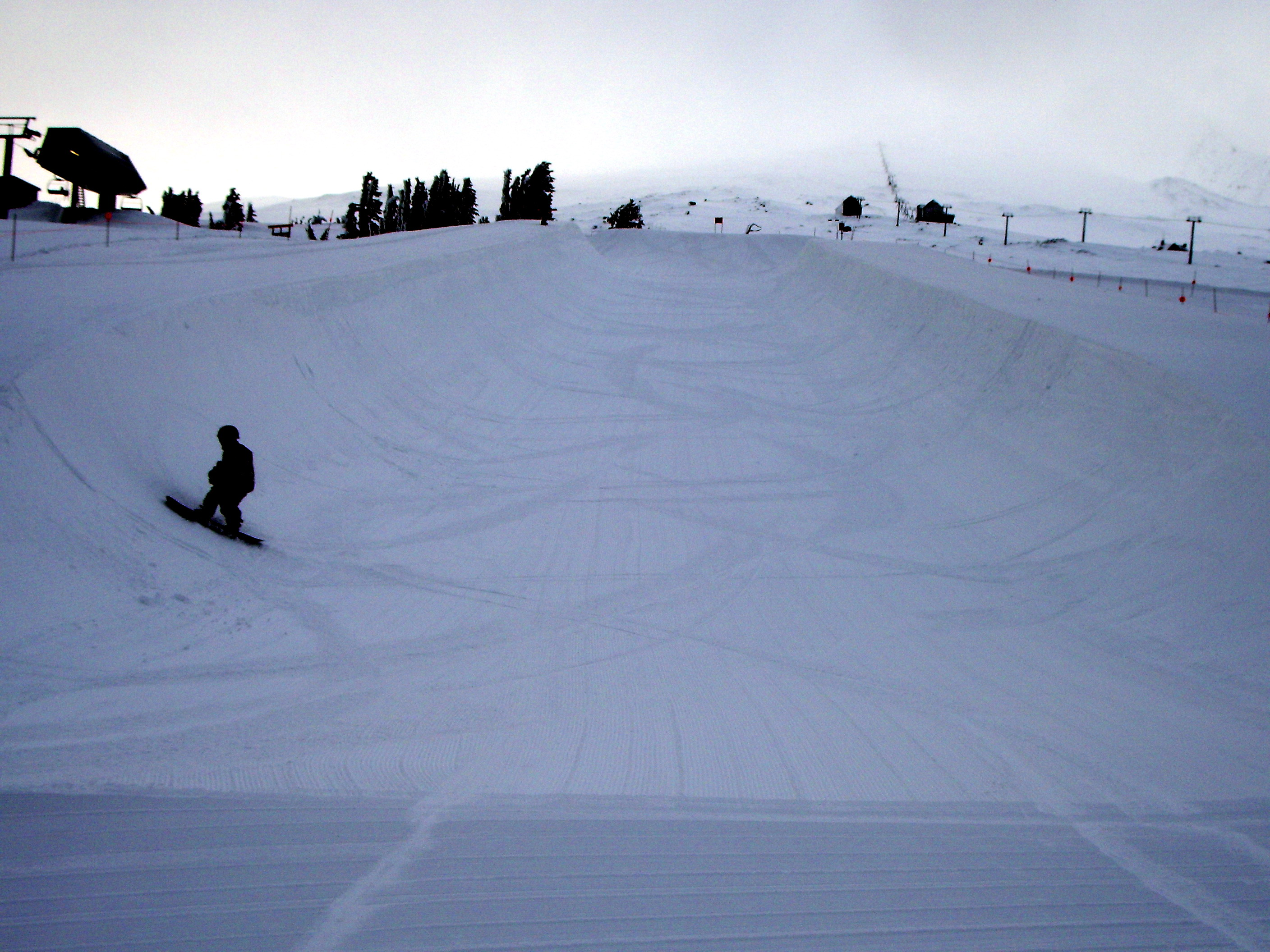 small half pipe at Timberline Lodge ski area